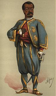 Italian actor Tommaso Salvini (1829-1915) as William Shakespeare's Othello, as depicted in Vanity Fair, May 22nd, 1875